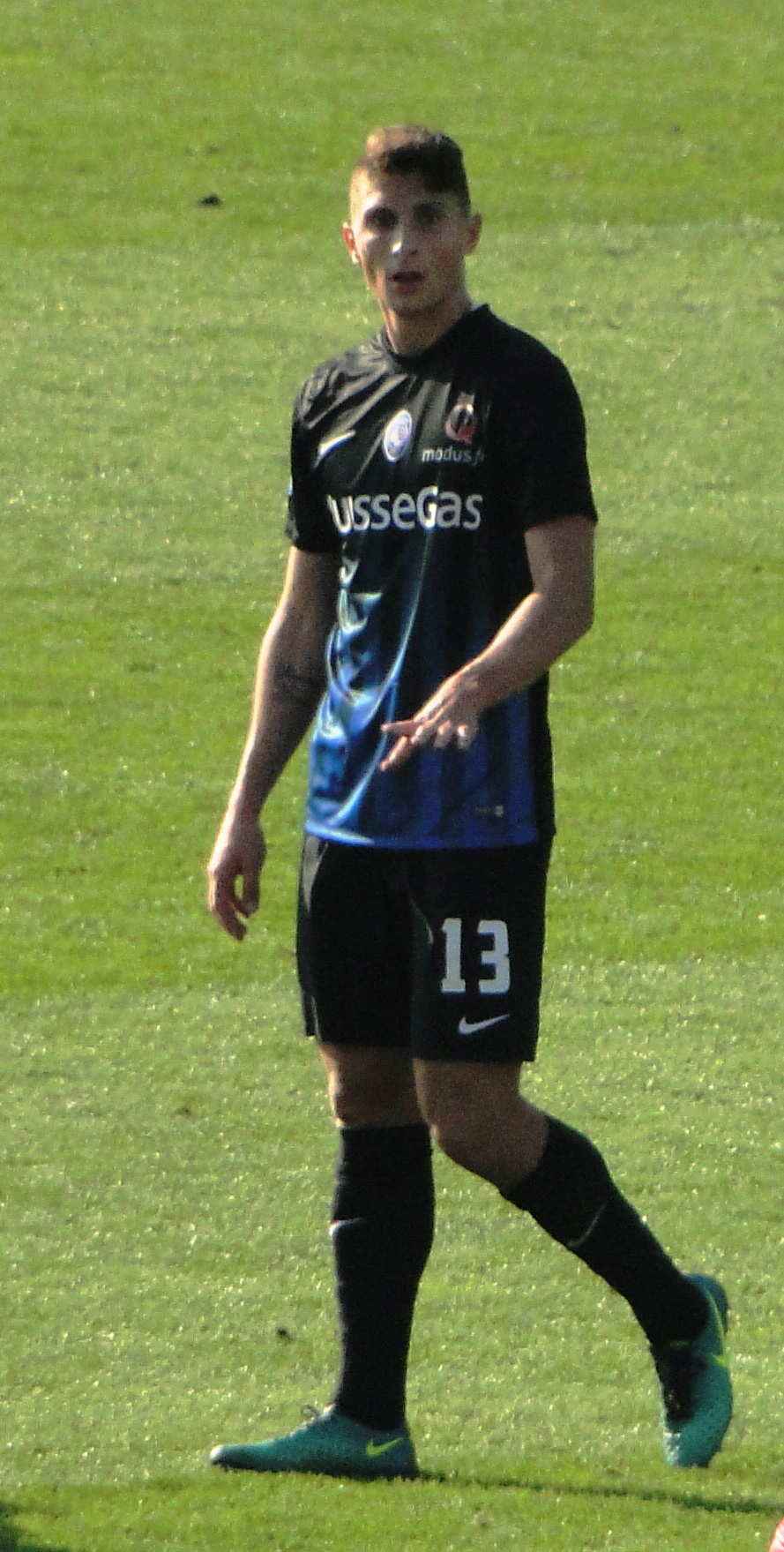 Italian footballer Mattia Caldara with Atalanta B.C. in the 2016–17 season.